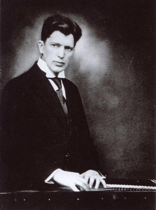 Photograph of the Finnish kantele player Paul Salminen (1887–1949).